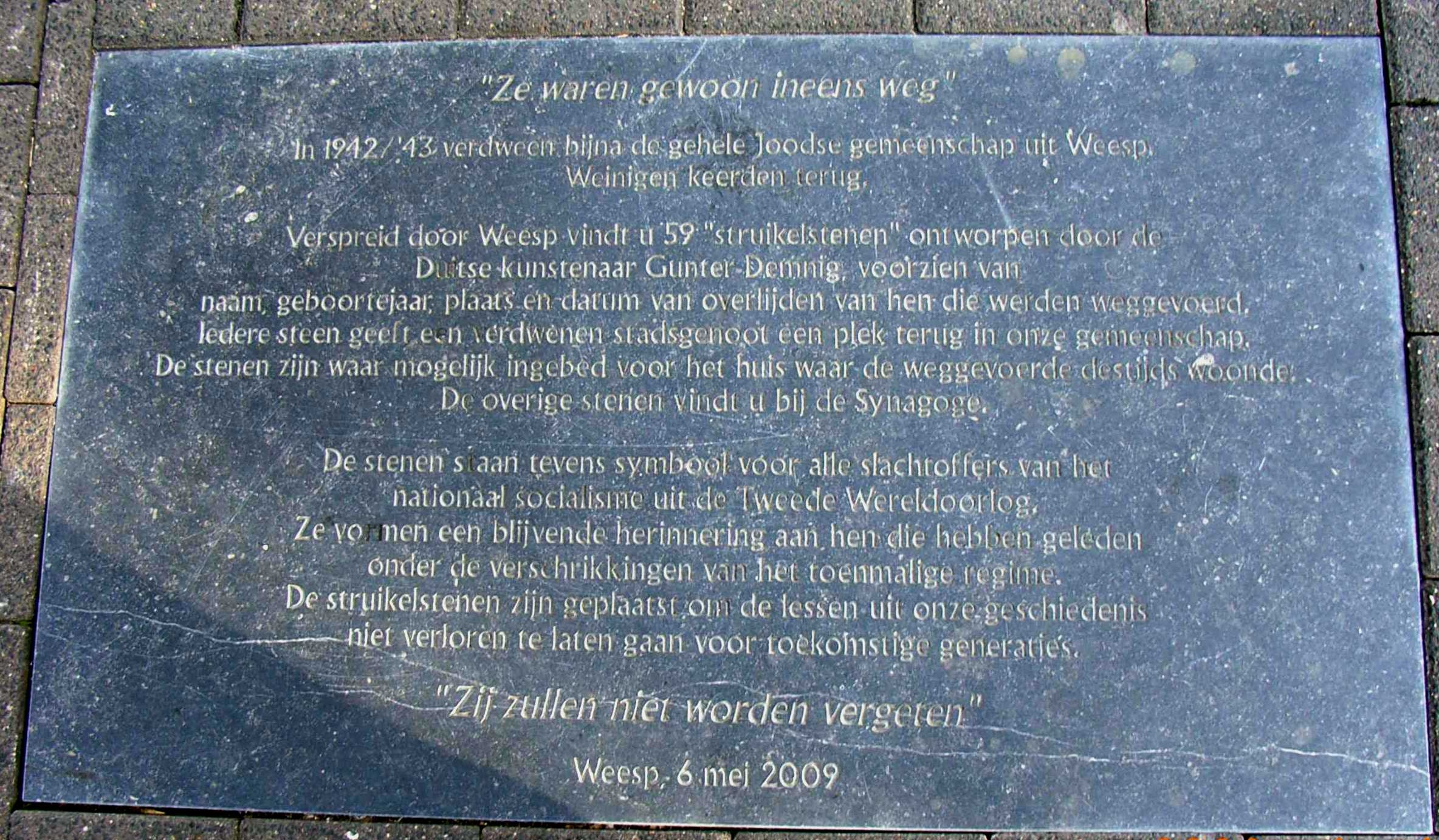 Information panel stolpersteine in Weesp/The Netherlands